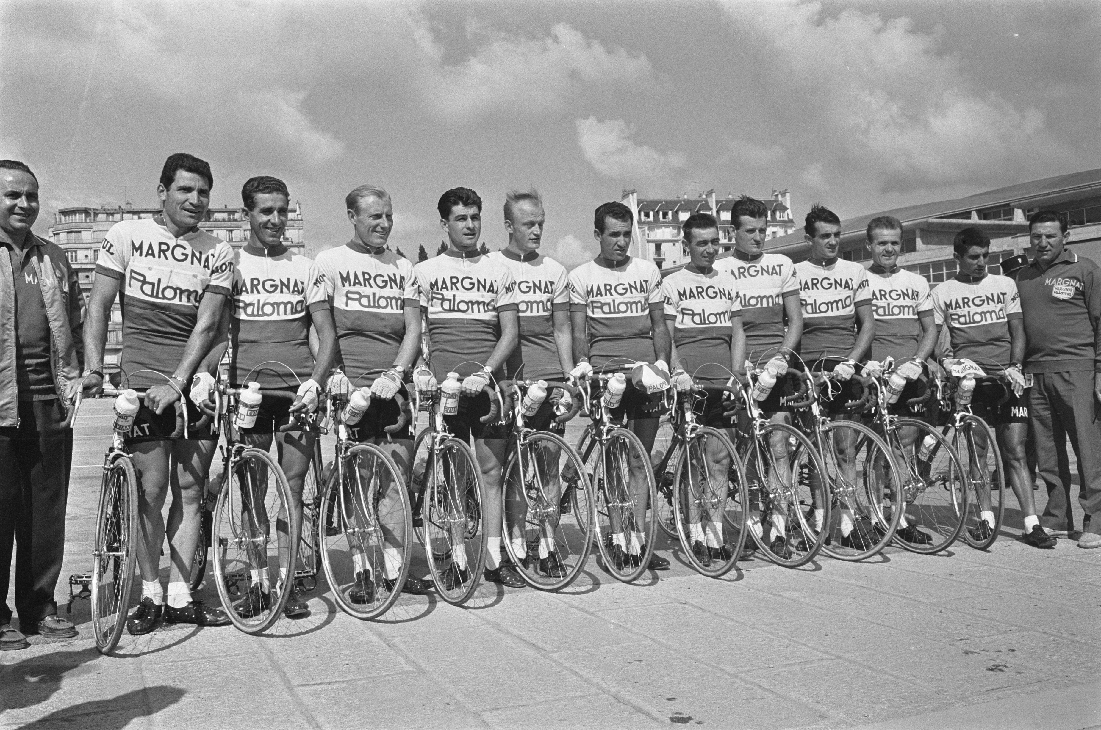 The Margnat-Paloma team at the 1964 Tour de France: Jean Anastasi, Federico Bahamontes, André Darrigade, Jean Graczyk, Esteban Martín, Claude Mattio, Jean Milesi, Joseph Novales, Eddy Pauwels and José Segú.